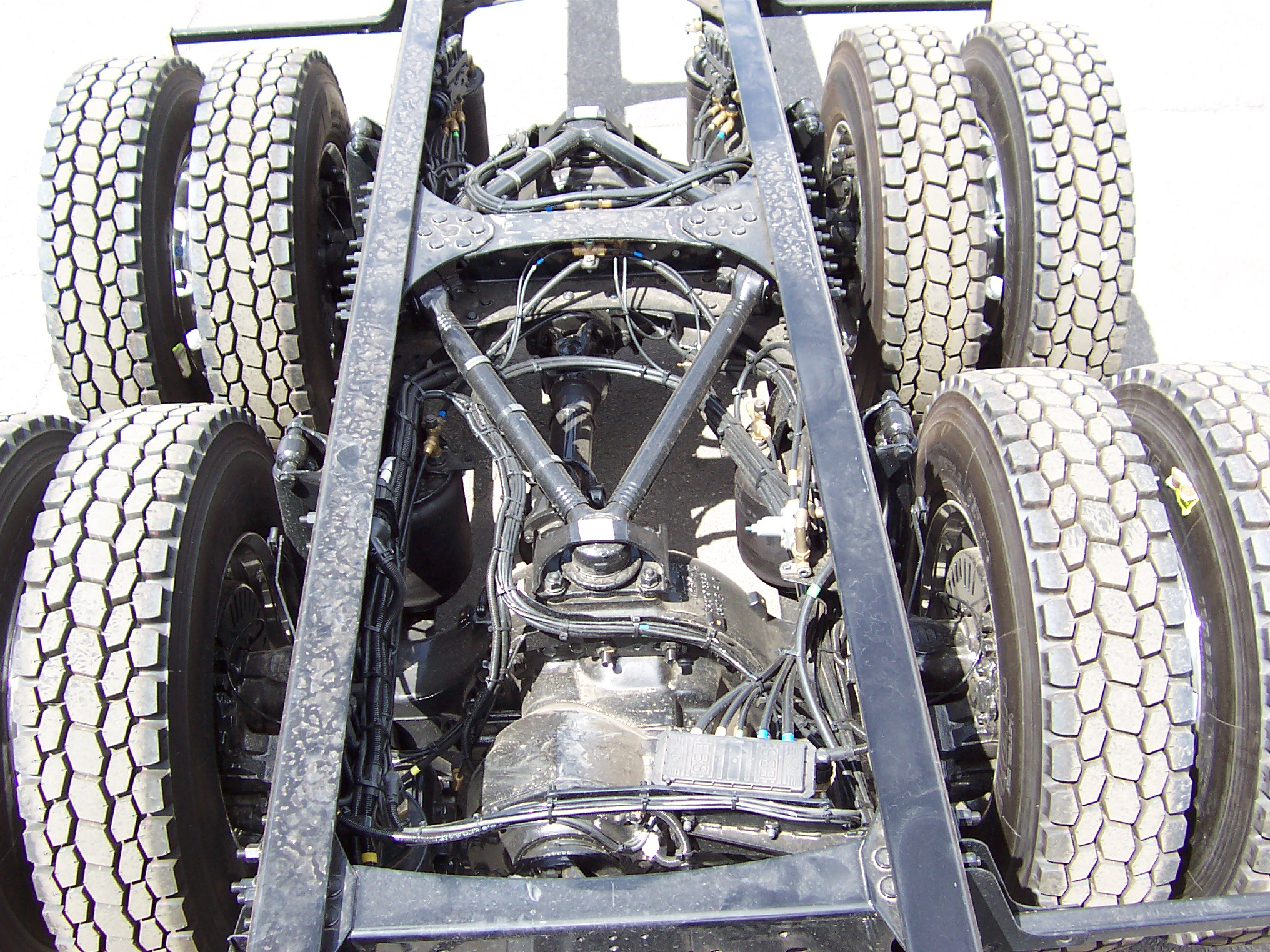 A truck 6x4 rear tandem axles